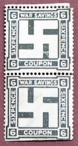 1916 White swastika 6 pence war savings coupon. Jones Type 1, Issue 1.